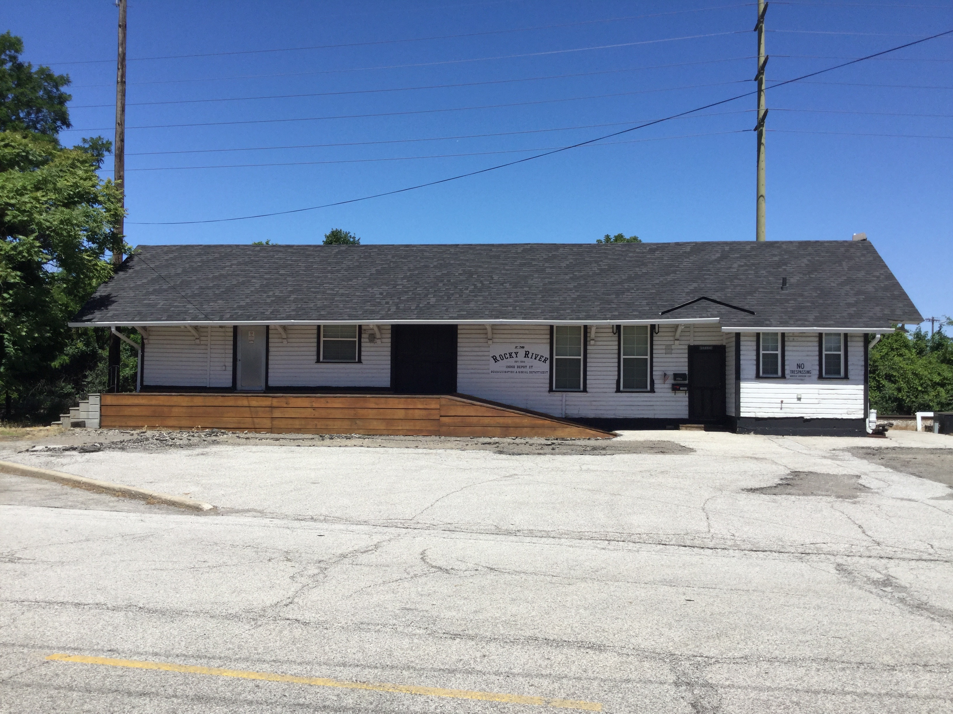 RTA file batch - July 8, 2018